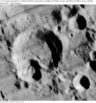 In addition to Lacroix (to the left of center), the other named features in this view are 18-km Lacroix J (on its southwest rim), 13-km Lacroix H (in the lower right), and 14-km Lacroix N (the more deeply shadowed of the two craters in the upper right).